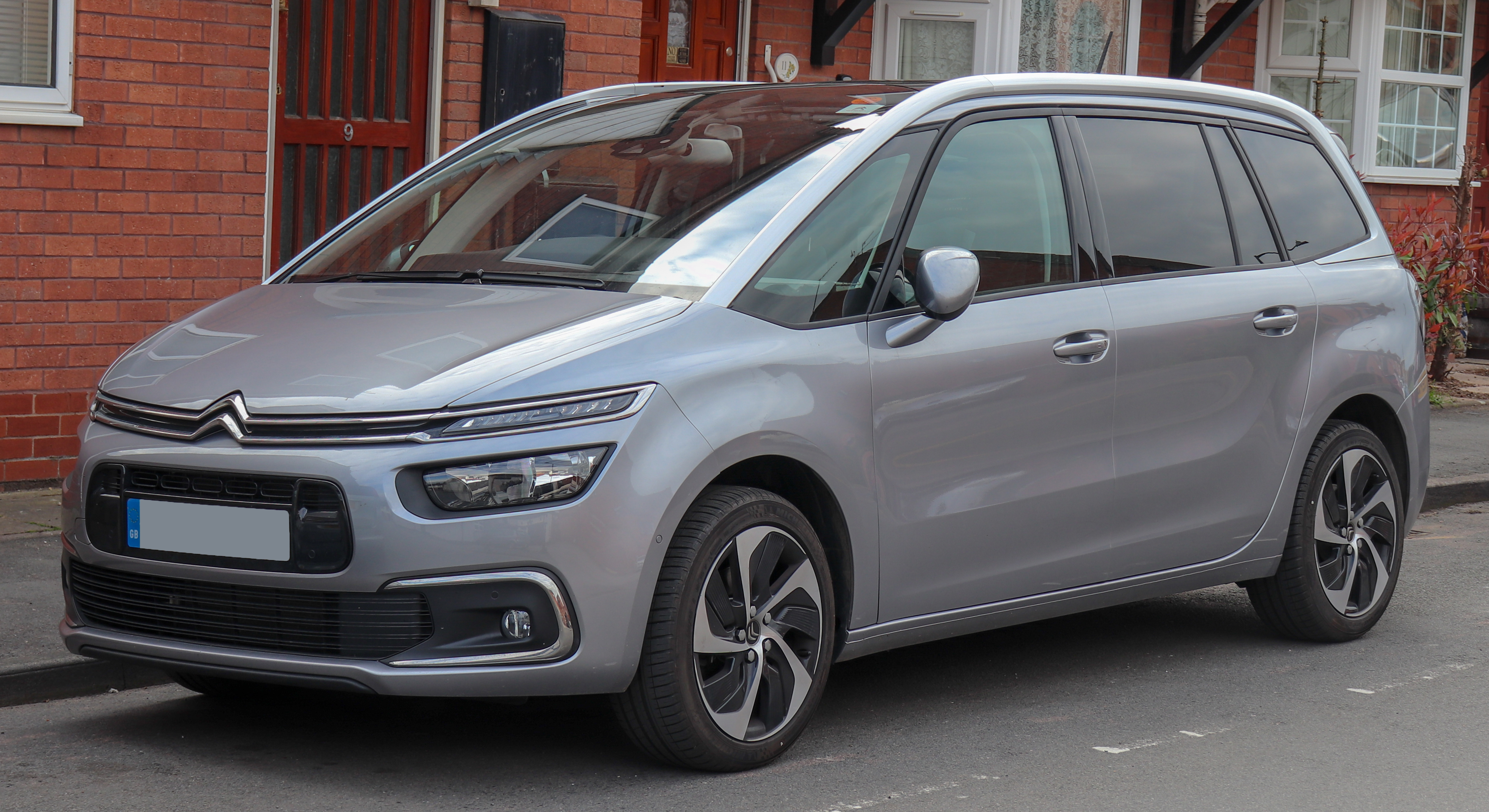 2019 Citroen C4 Grand Spacetourer Flair BlueHDi 2.0 Front Taken in Warwick